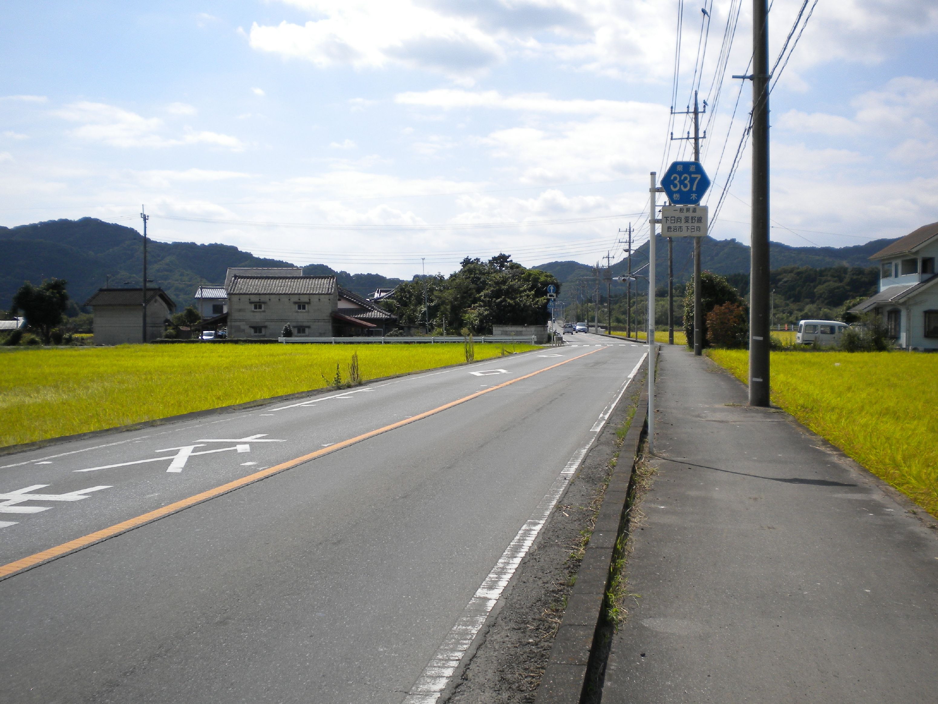 The Tochigi Prefectural Road Route 337 in Shimohinata, Kanuma City